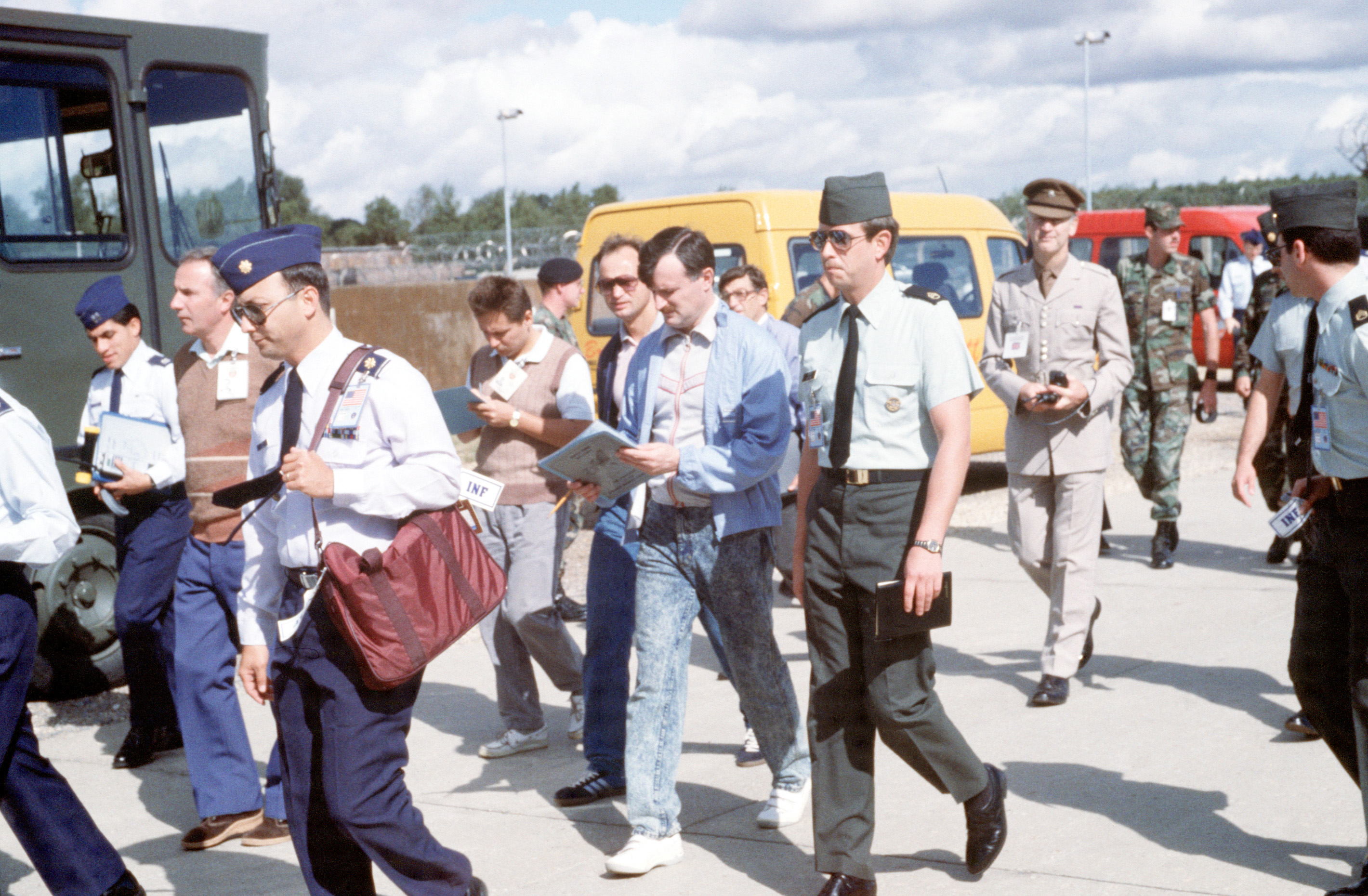 Accompanied by their NATO counterparts, Soviet inspectors enter a weapons storage area to verify NATO compliance with the Intermediate Range Nuclear Forces (INF) Treaty.